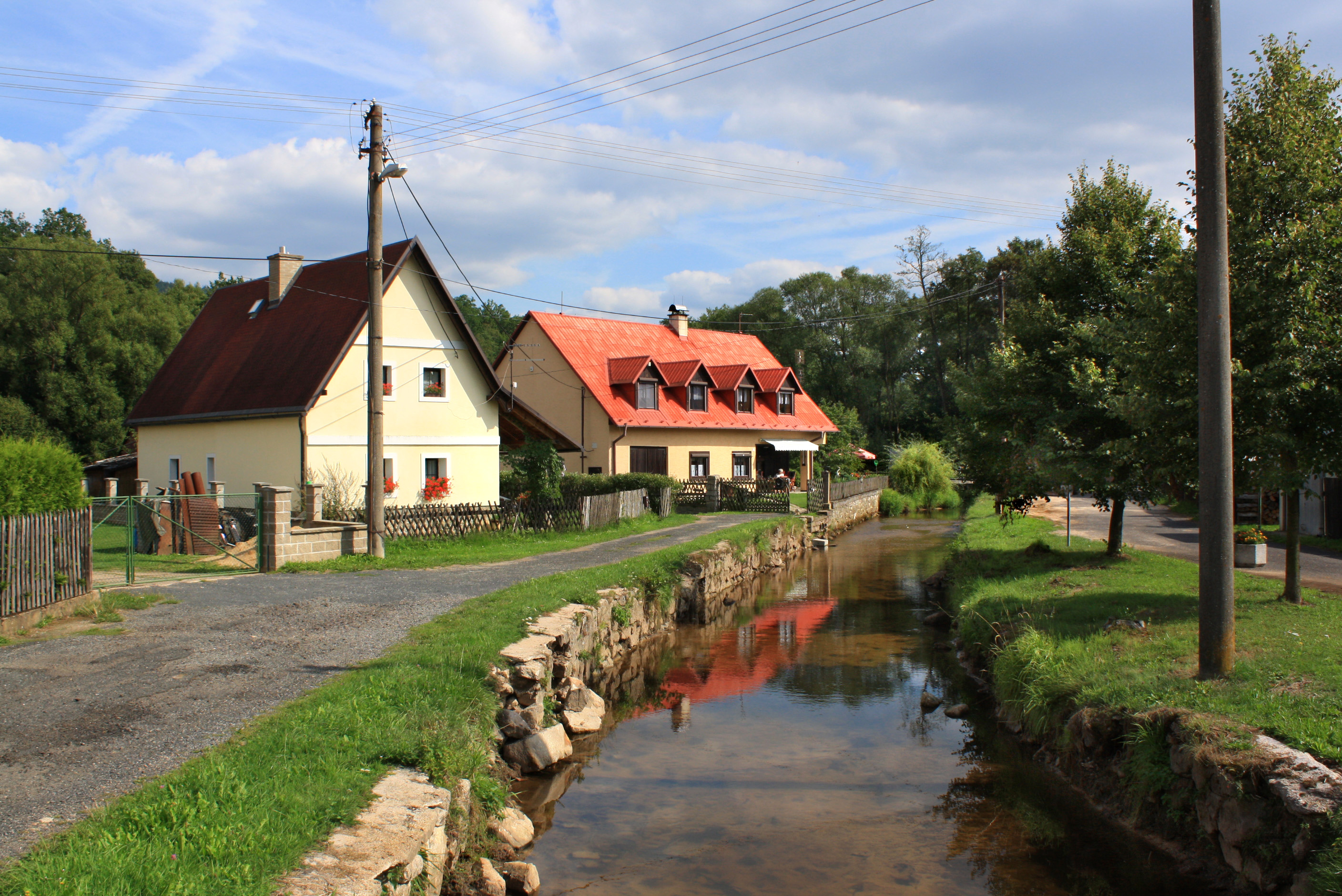 Lipoltovský creek in Milíkov village, Czech Republic